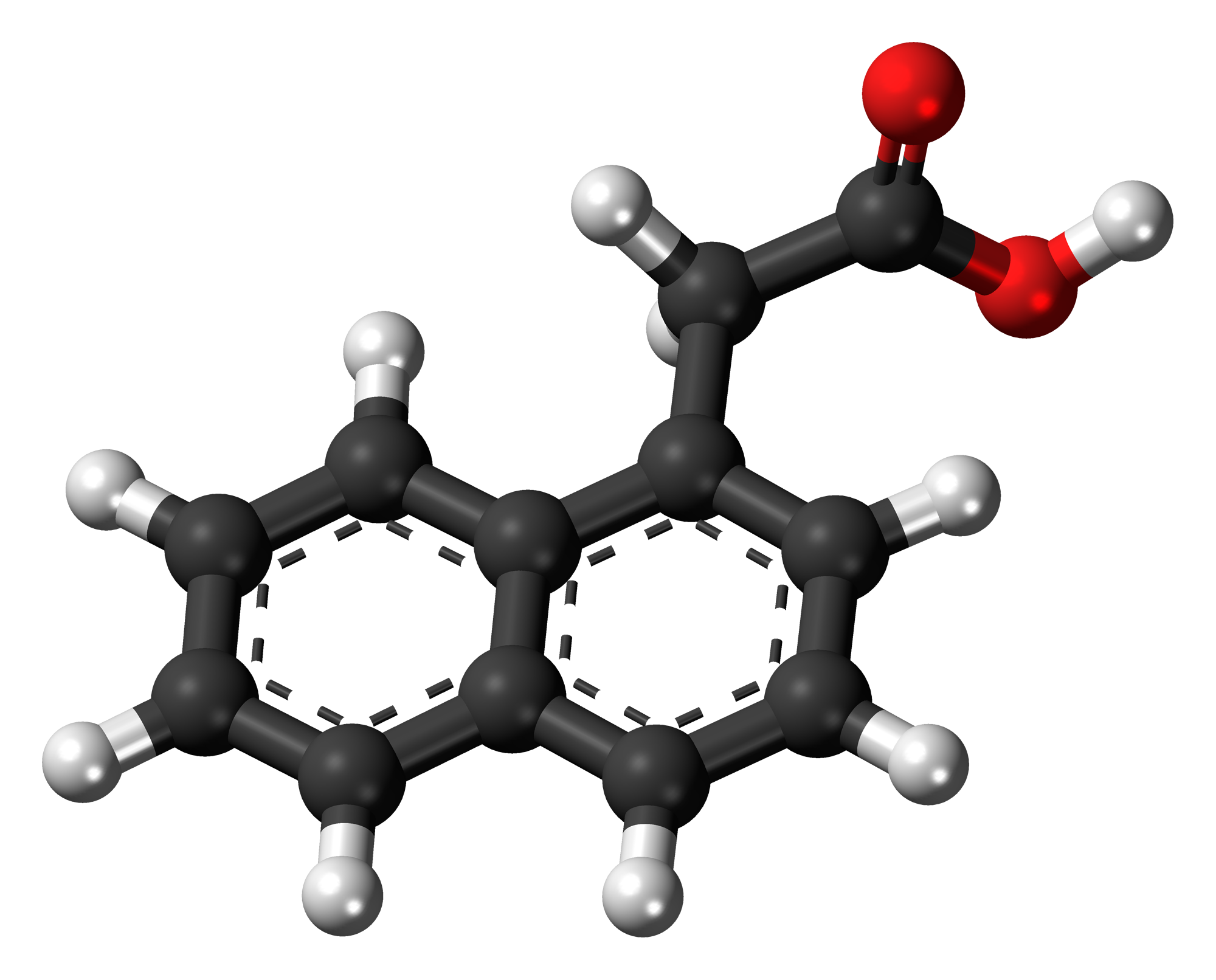 Ball-and-stick model of the 1-naphthaleneacetic acid molecule, a plant hormone in the auxin family. Colour code: Carbon, C: black Hydrogen, H: white Oxygen, O: red